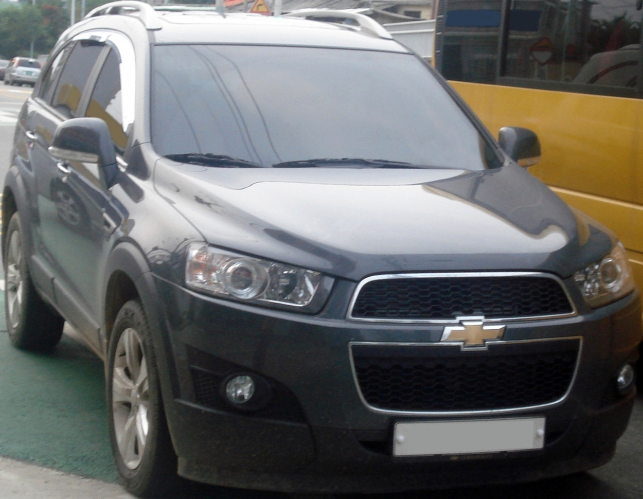 Chevrolet Captiva